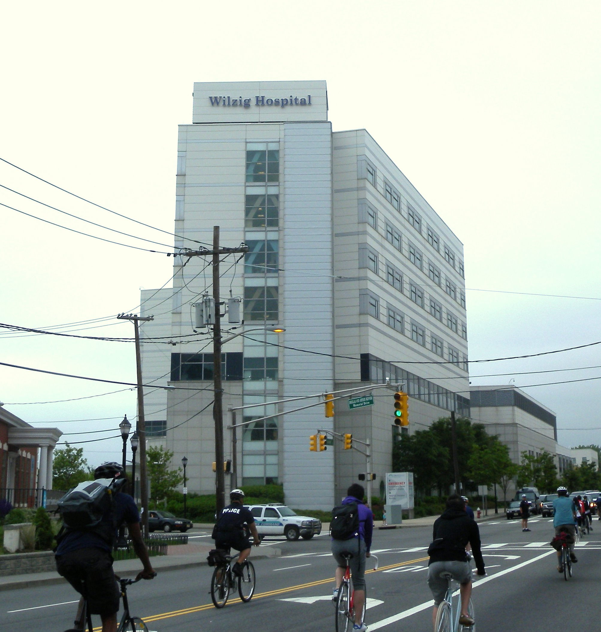 Looking west along Grand Street across Jersey Avenue at hospital on a cloudy morning during JC Ward Tour.